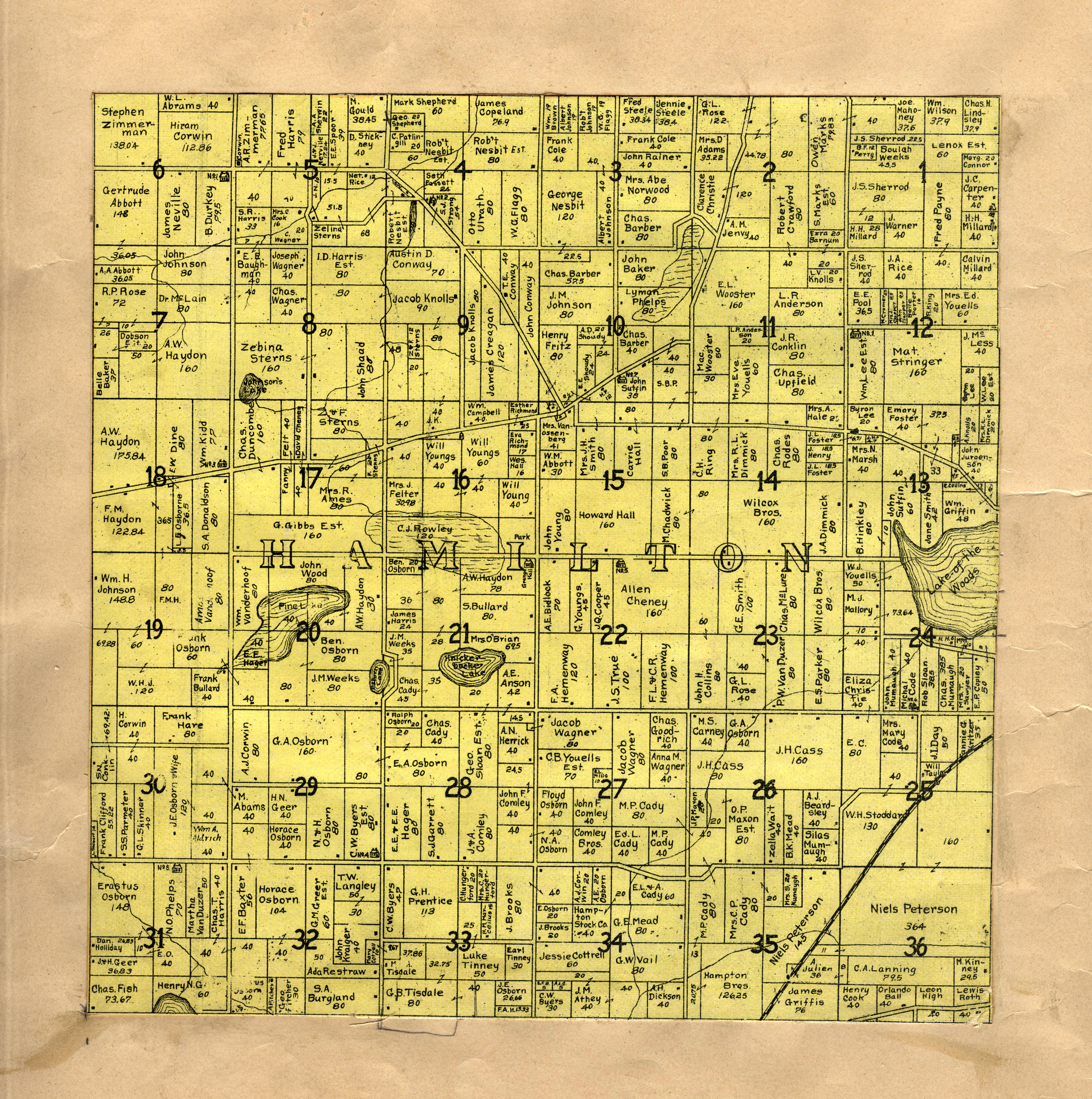 Digital scan of the Hamilton Township portion of a larger 1906 map of Van Buren County, Michigan. The county map was cut into township-sized pieces, and the pieces were later found pasted into an 1895 atlas of Van Buren County, now in the collection of the Michigan State University Map Library. Each township map cut from the 1906 county map was pasted onto a blank page opposite the map of the corresponding township in the 1895 county atlas. Shows parcel boundaries and names of property owners, Public Land Survey System township and section numbering, roads, railroads, residences, schools, churches, municipalities, and water features. Print version was cut from map: Orton, M. K. A farm map of Vanburen County, Michigan / compiled from official records and local inspection by W.H. Goss, County Surveyor ; drawn by M.K. Orton. Rockford, Ill. : W.W. Hixson, [1906]. MSU Libraries catalog record